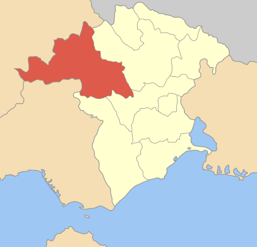 Locator map of Stavroupoli municipality (Δήμος Σταυρούπολης) in Xanthi prefecture (Νομός Ξάνθης) in Greece.